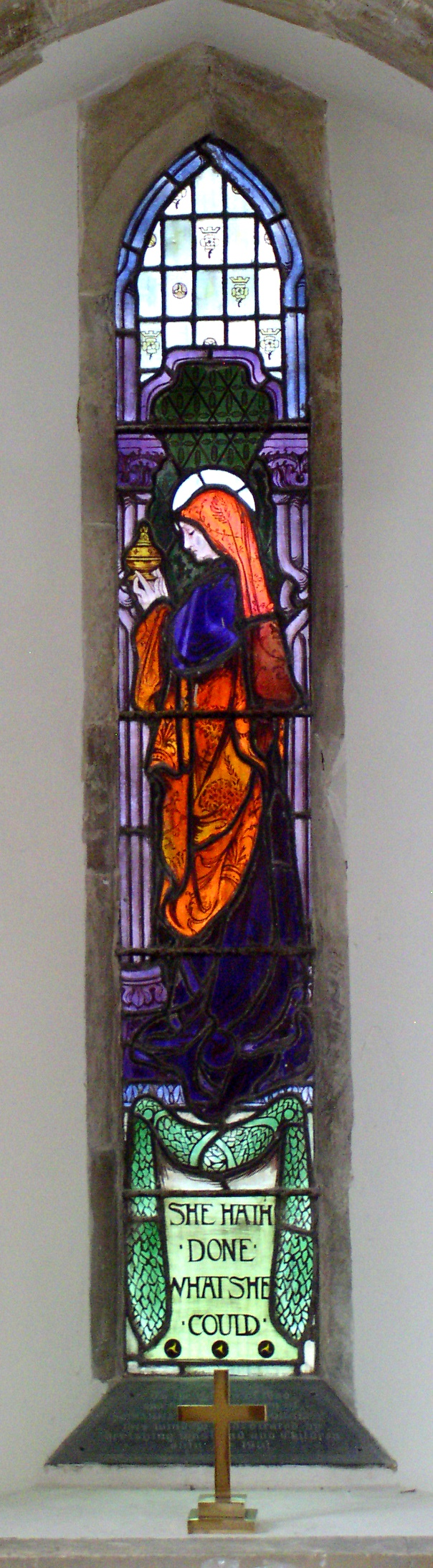 Stained glass window, by Lowndes & Drury, 1901, in St Peter's Church, Henfield, West Sussex. The inscription reads "She hath done what she could." (See Mark 14:8.)